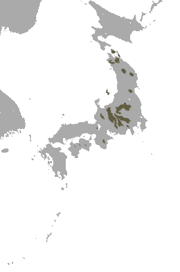 Shinto Shrew (Sorex shinto) range